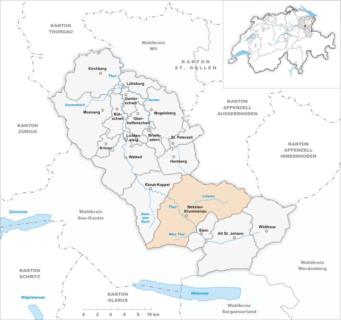 Municipality Nesslau-Krummenau